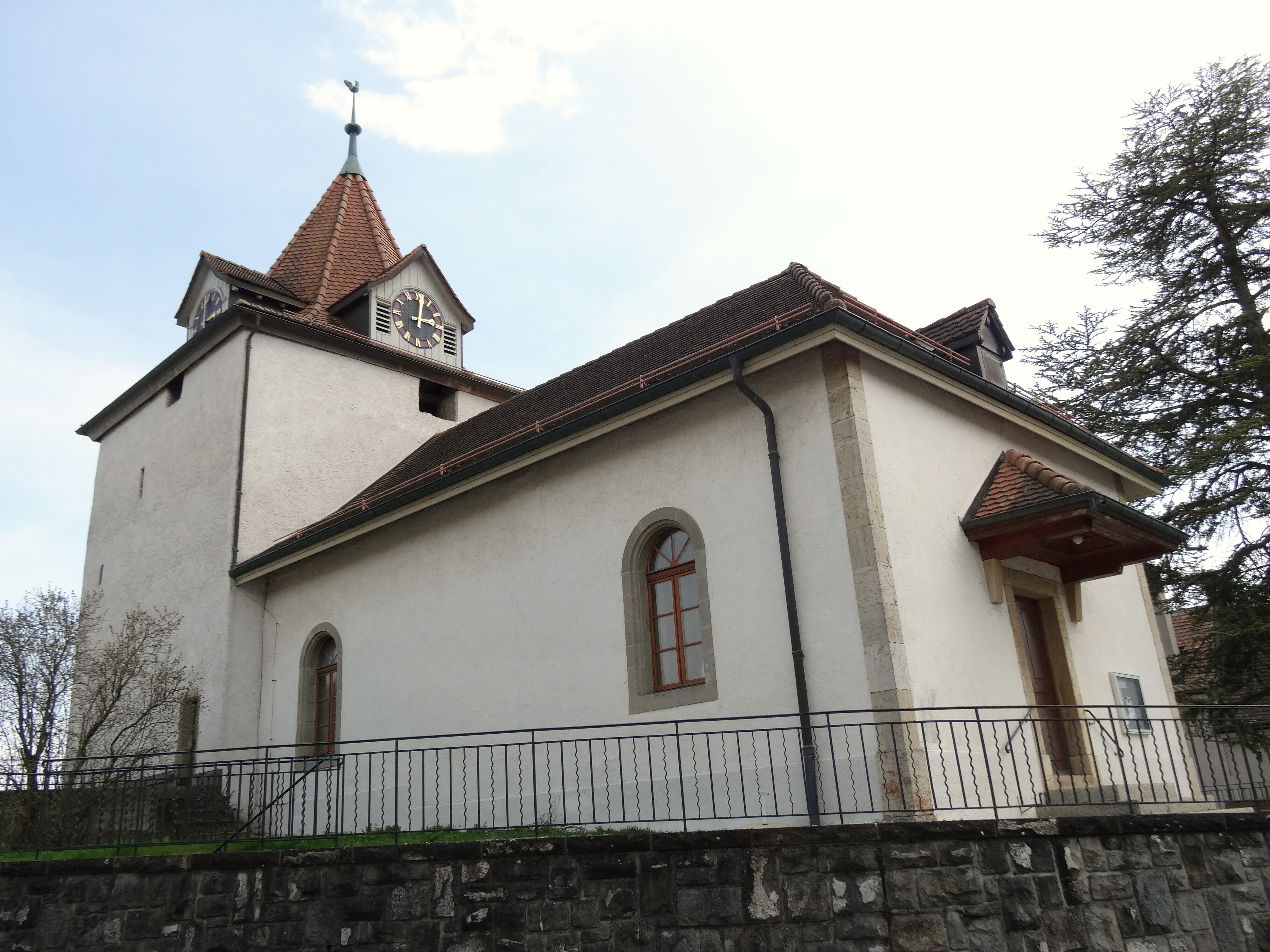 Penthalaz, Le temple